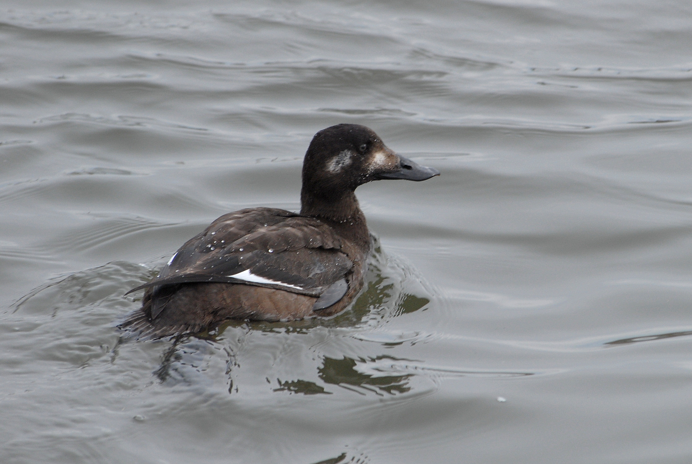 White-winged Scoter (female)